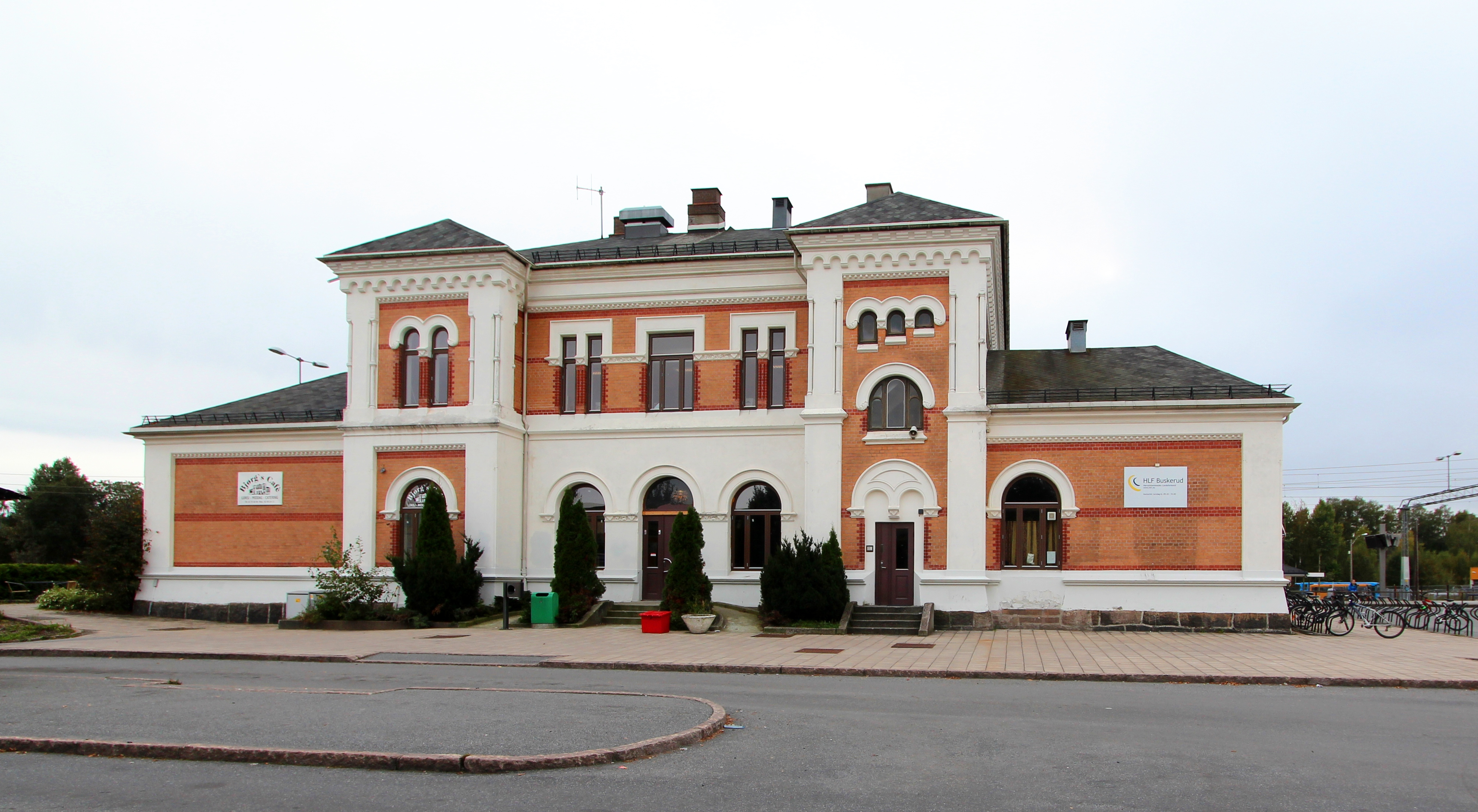 Hokksund railway station, as seen from the town.